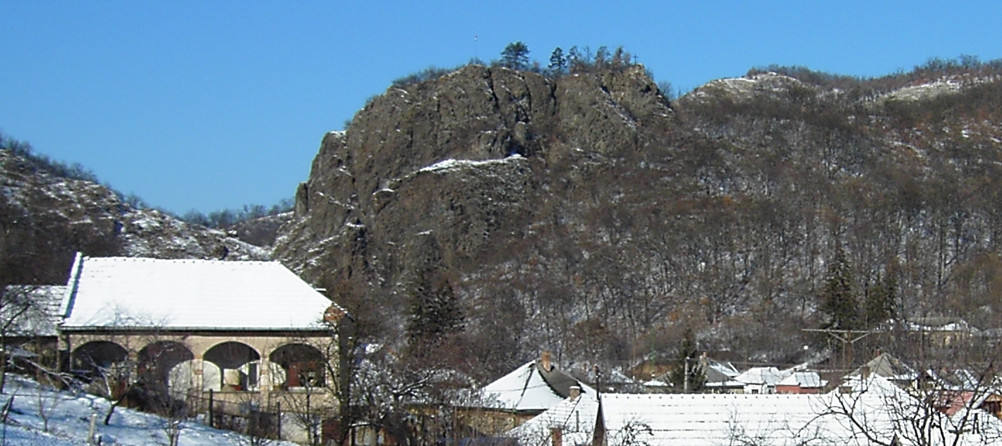 Szarvaskő and the Catle Hill panorama in 2004